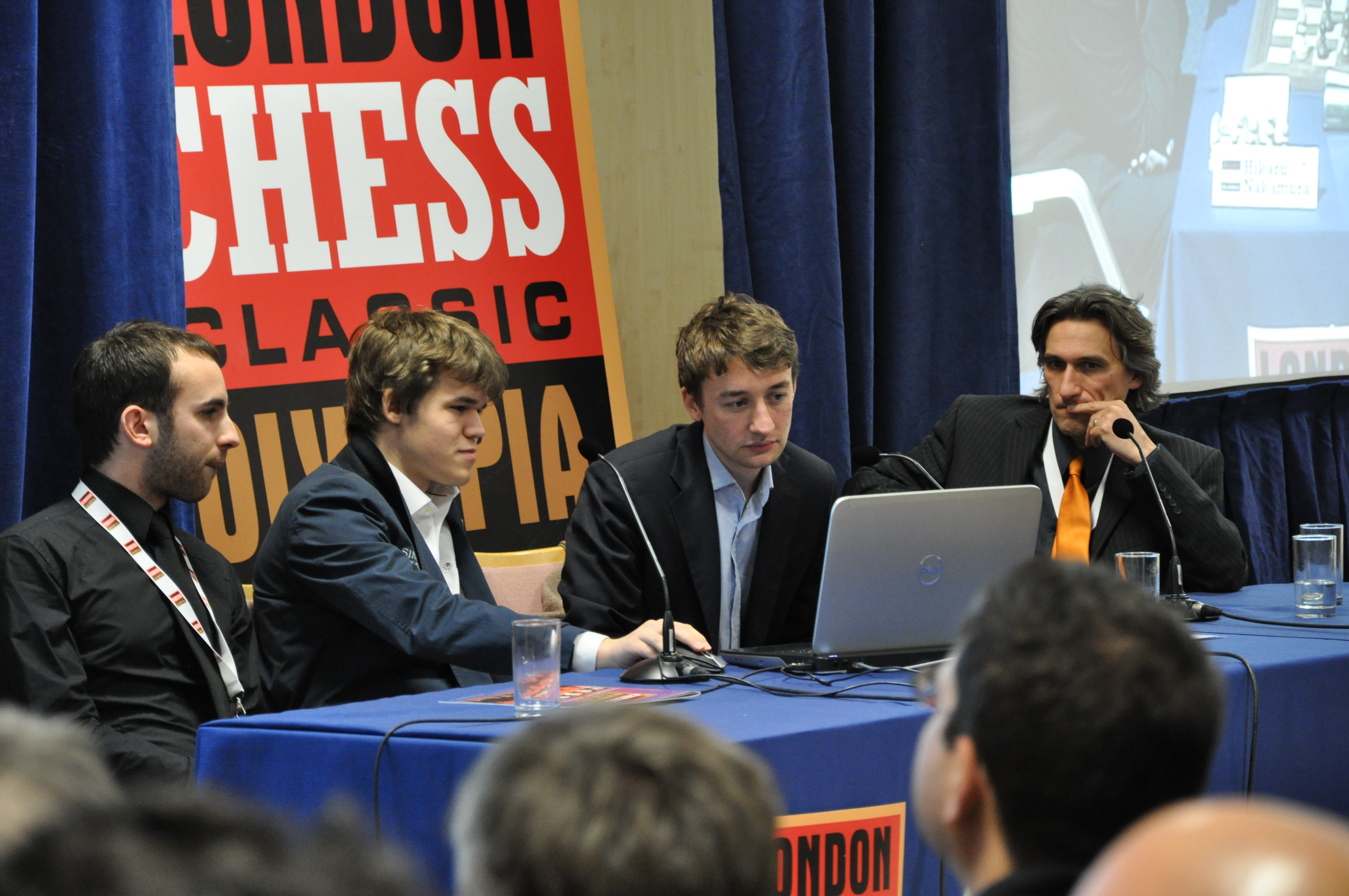 London Chess Classic 2010